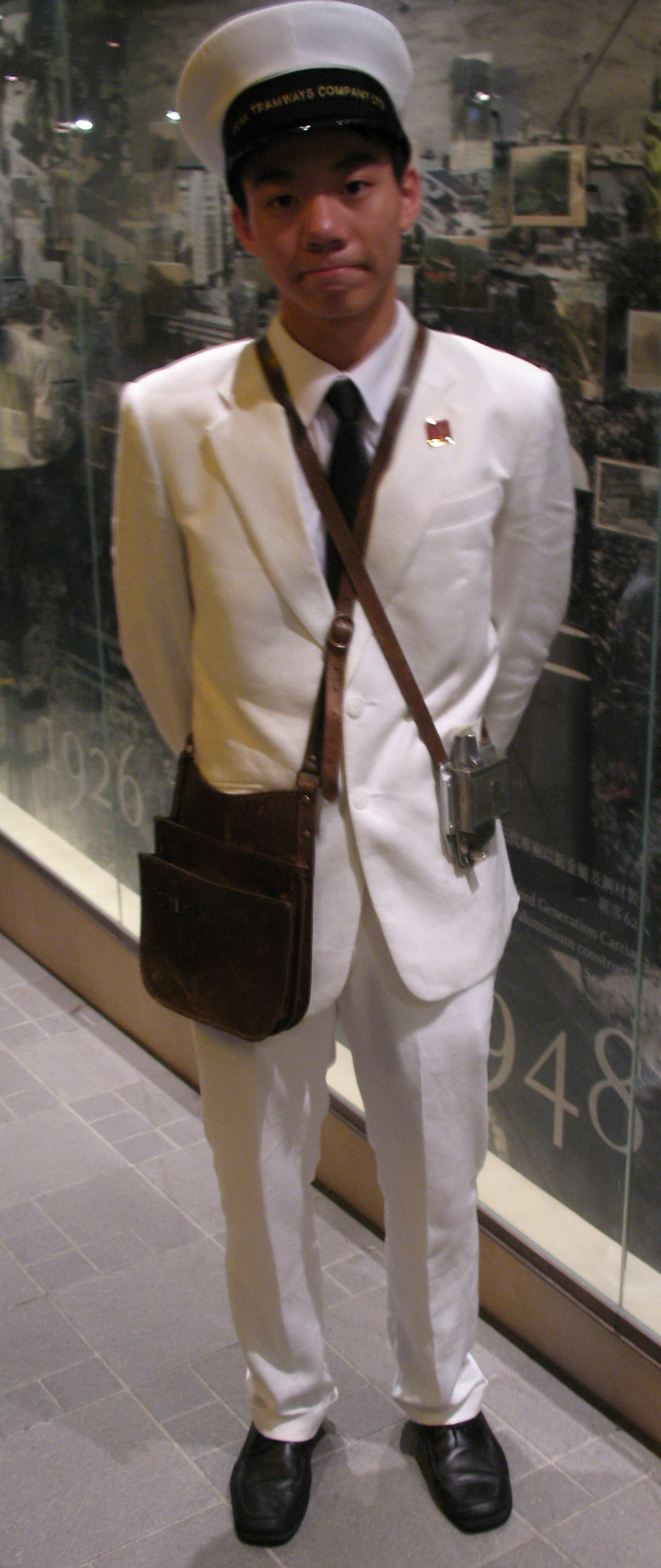 120th anniversary of Peak Tram in Hong Kong.